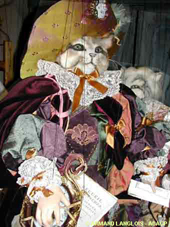 Chat horloger, assemblage 80cm